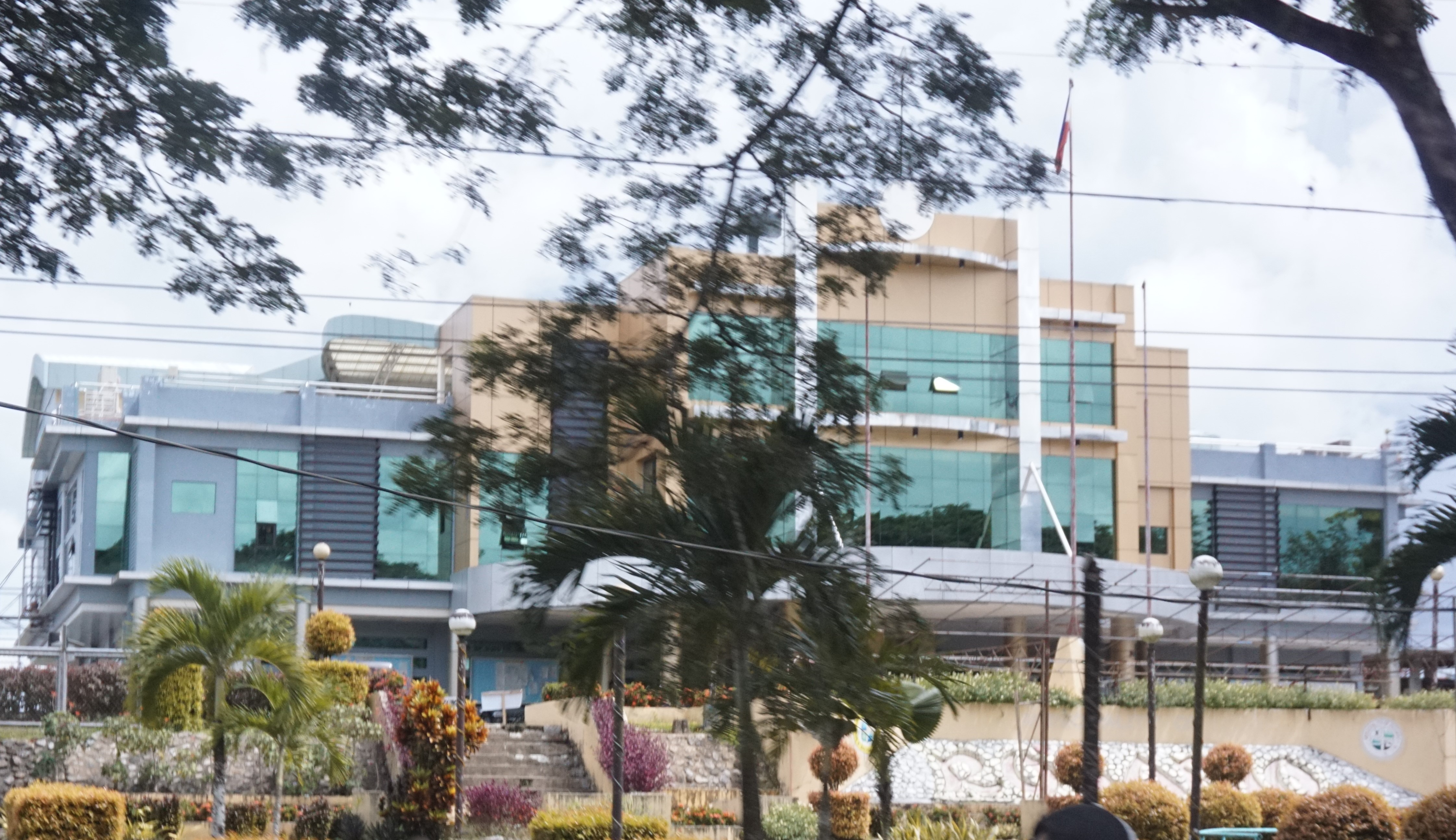 Rosario Municipal Hall located at AH-26, Agusan del Sur.